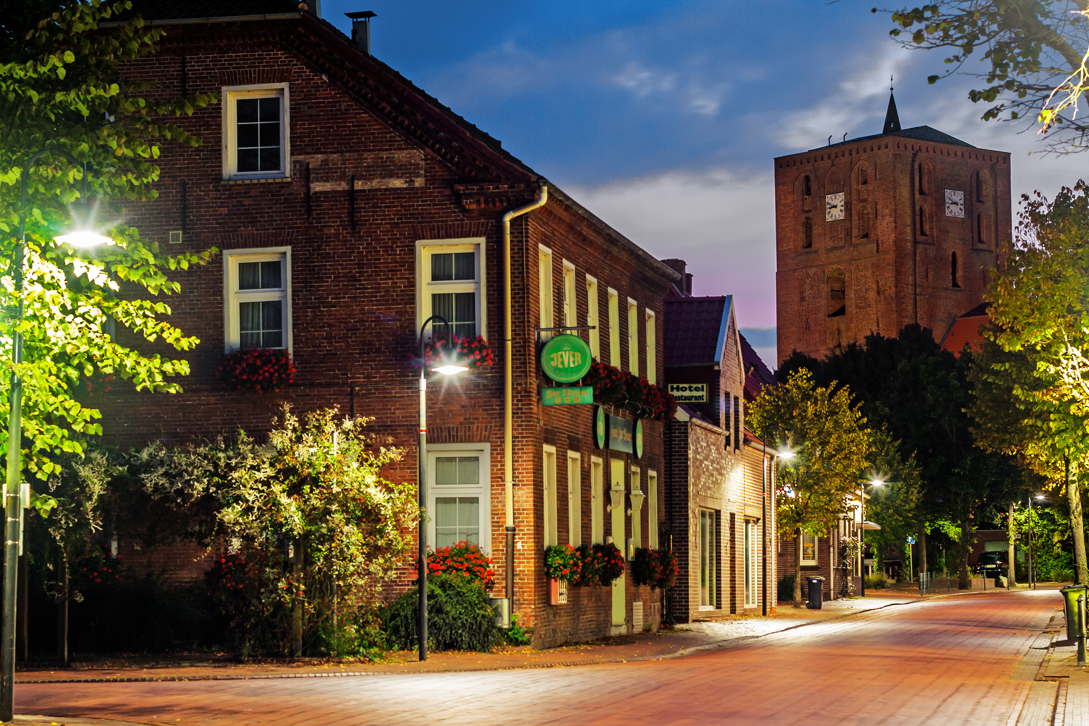 Marienhafe, East Frisia